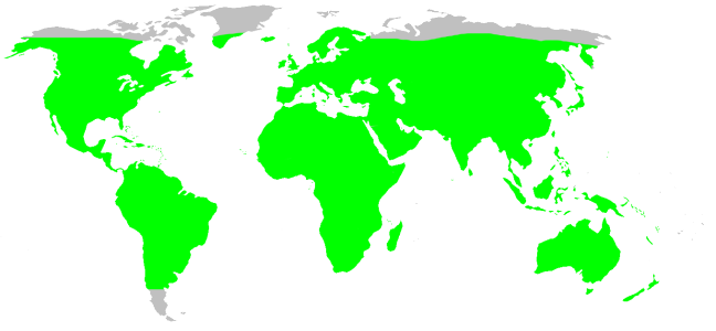 Gnaphosidae habitat distribution, drawn after Platnick: World Spider Catalog 7.0. This is not at all a precise rendering of the distribution! If you have better information, please replace this map, or send me the info, and i will redraw it.